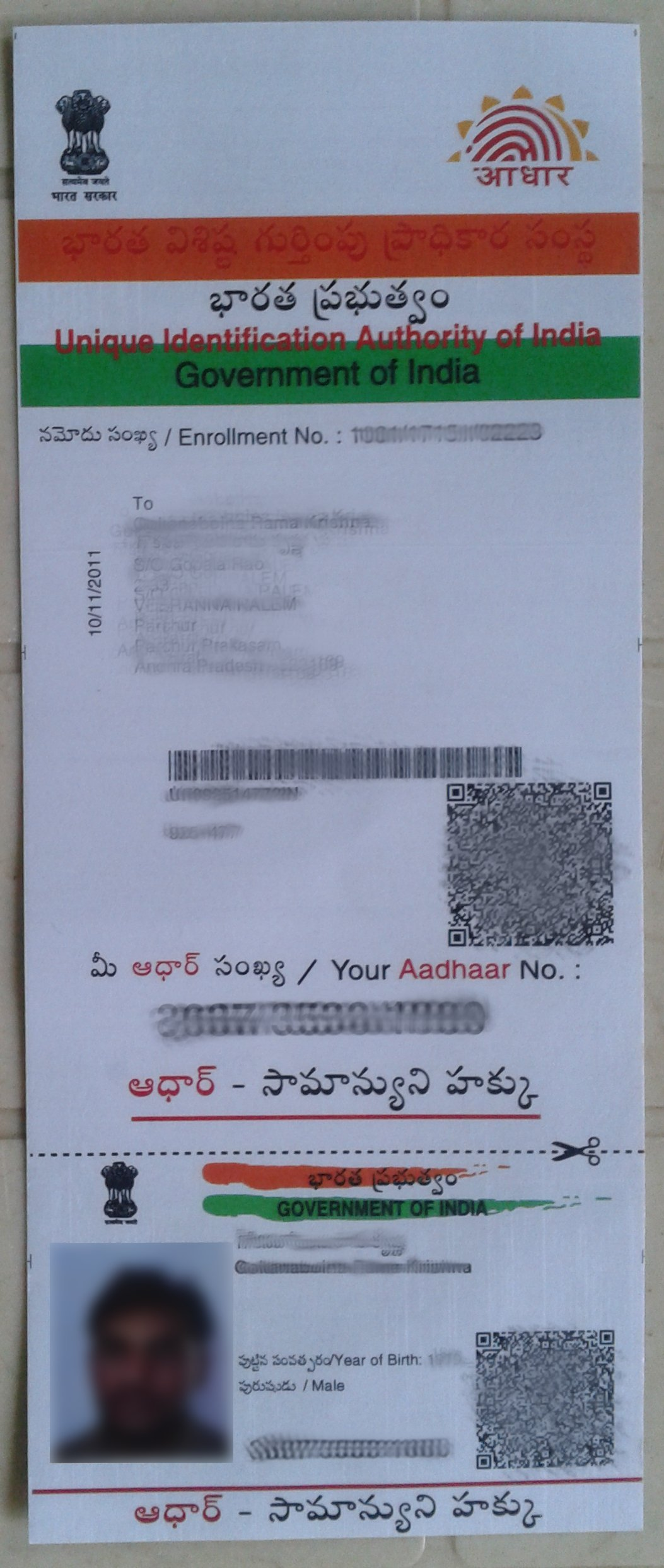 India Unique Identity Card (blurred), printed in English and Telugu